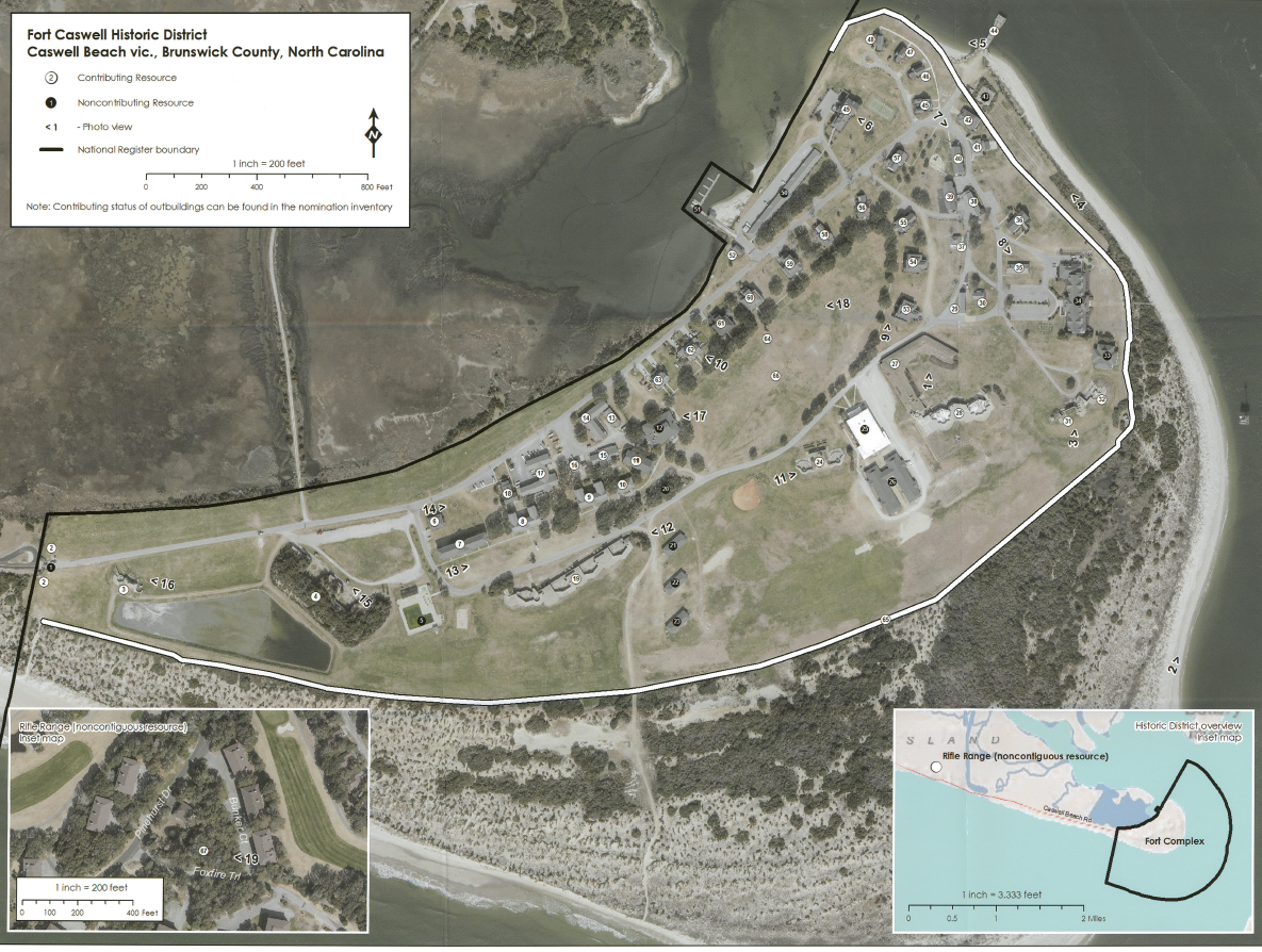 Annotated photo map showing Fort Caswell and Fort Caswell Rifle Range